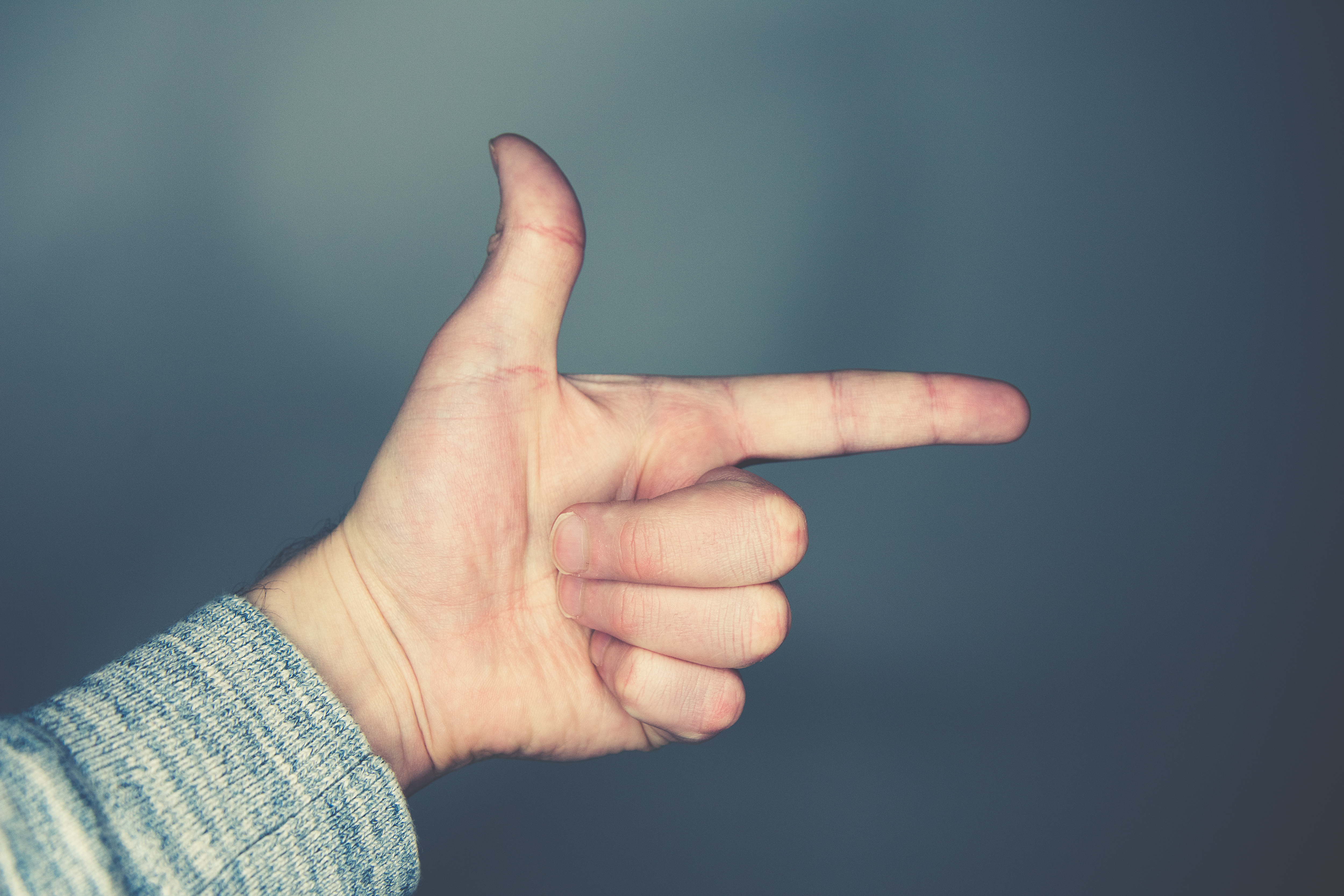 Johannes Wredenmark 2017-05-03